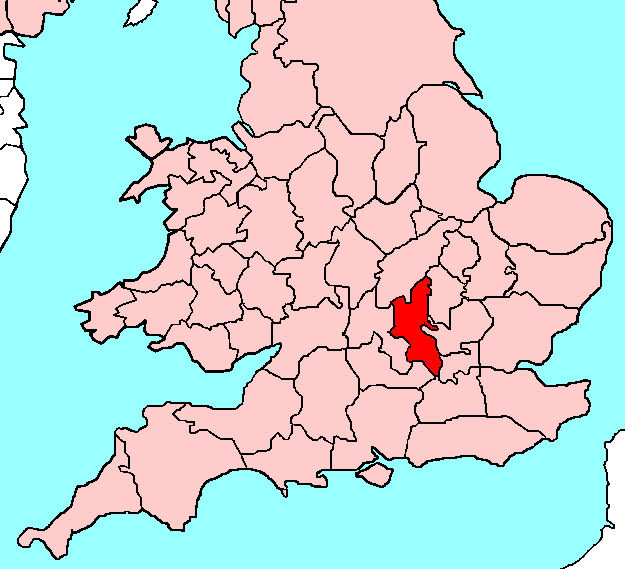 Buckinghamshire